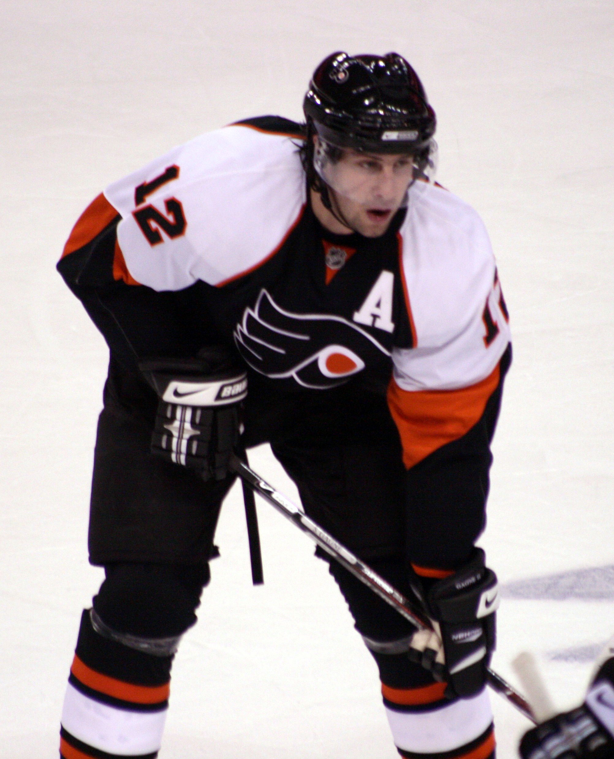 Philadelphia Flyers forward and alternate captain (A) Simon Gagné. Modifield with Windows Vista